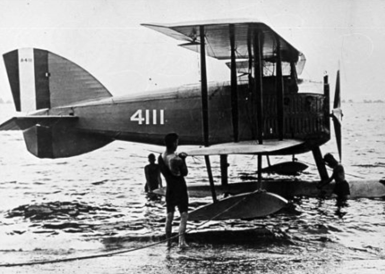 The U.S. Navy Curtiss HA-2 floatplane (BuNo A4111). This plane was built in 1918 and sank off Detroit, Michigan (USA), on 8 October 1922.